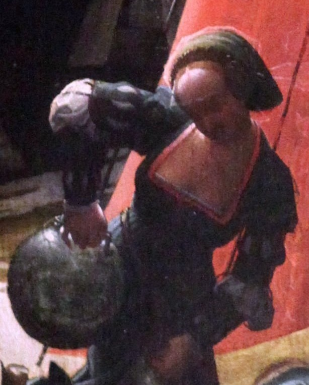 Lot and his daughters, Louvre (detail 3)